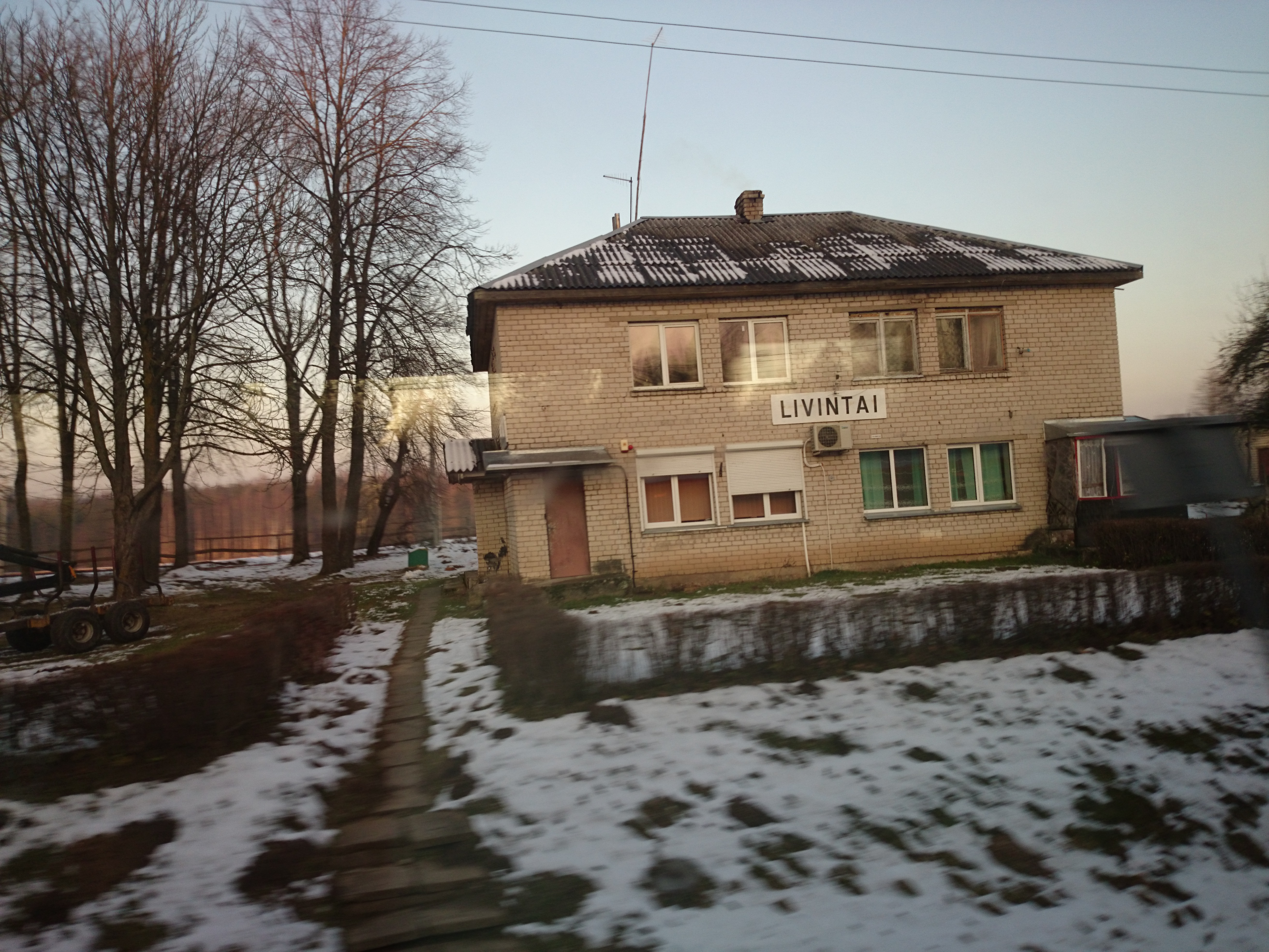 Livintai